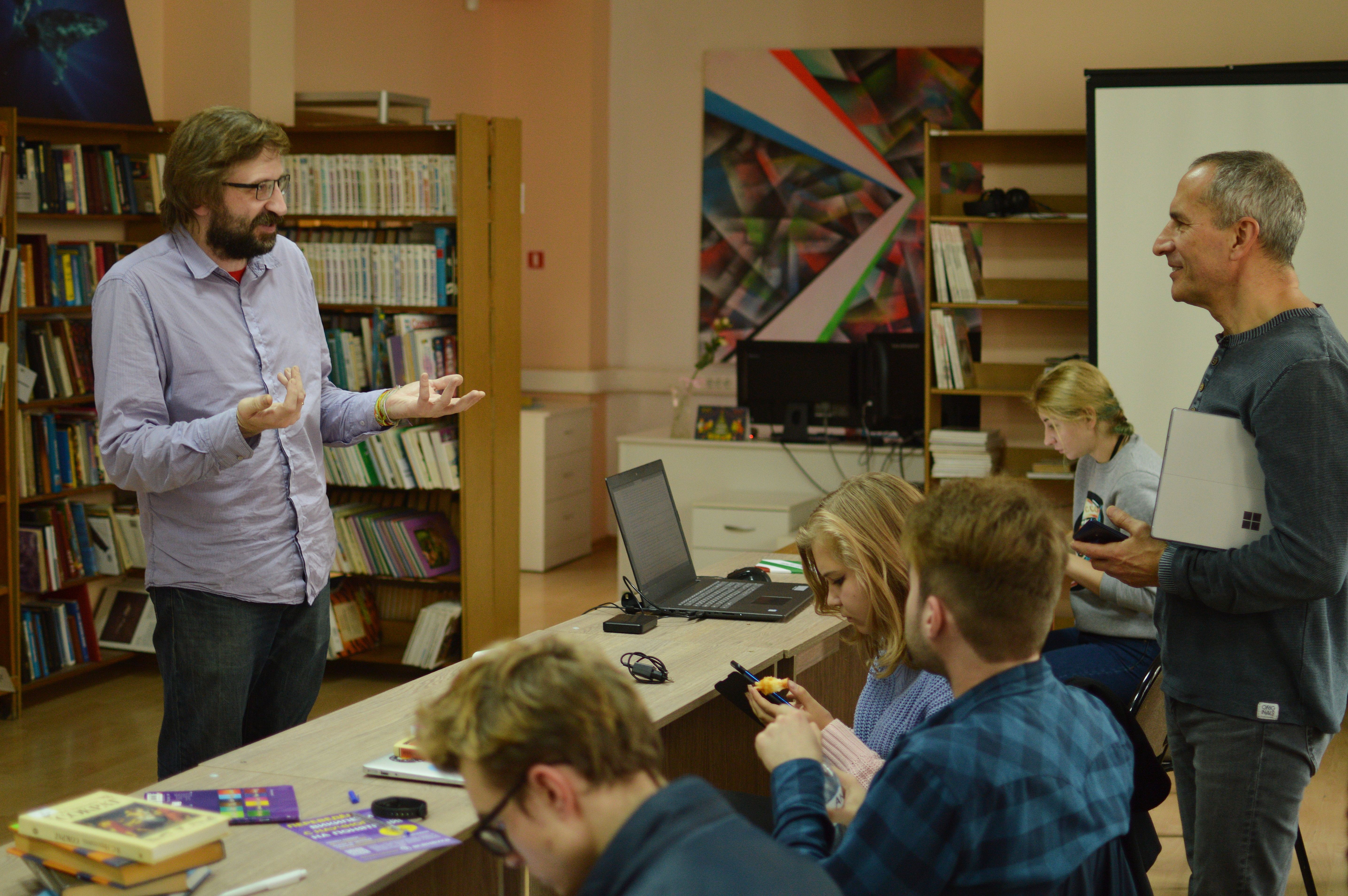 Wiki Tolmach Edit-a-thon 2019-10-26 at Moscow